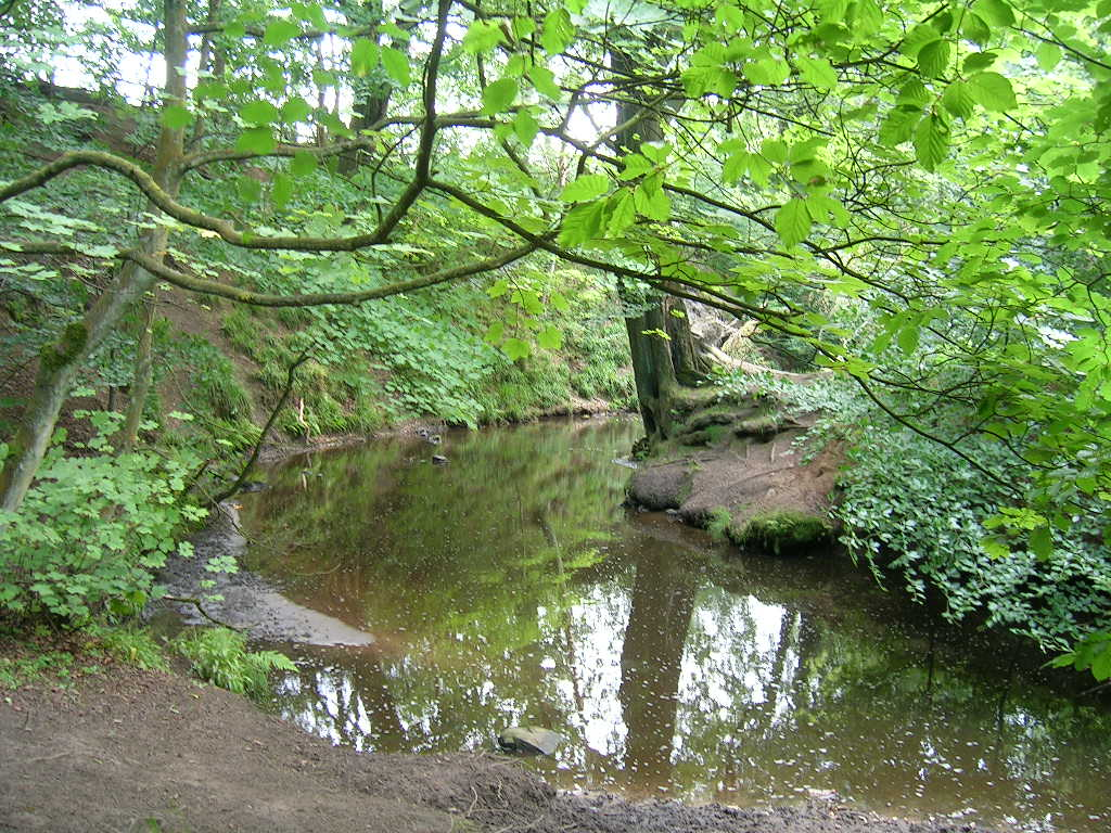 by me, released